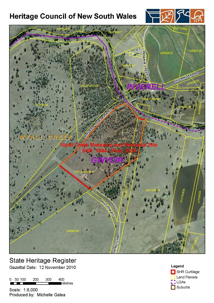 Myall Creek Massacre and Memorial Site: SHR Plan No 2339